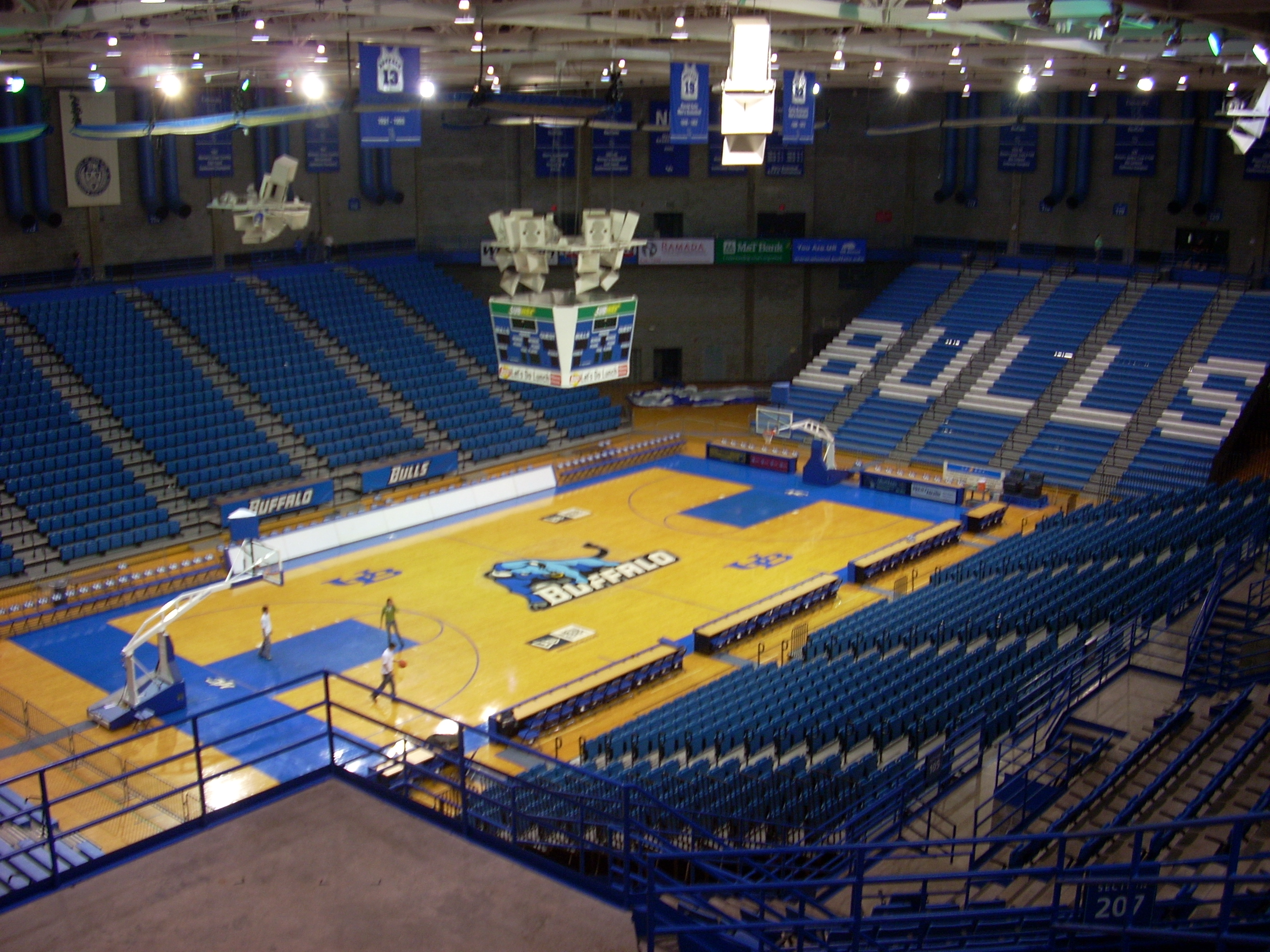 I took this picture on 1/16/08. Pete4999 (talk) 01:54, 17 January 2008 (UTC)